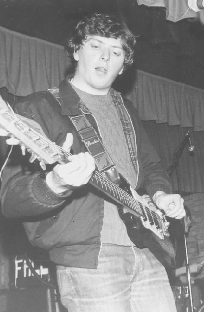 Craig Scanlon of The Fall c.1980 by Dawkeye